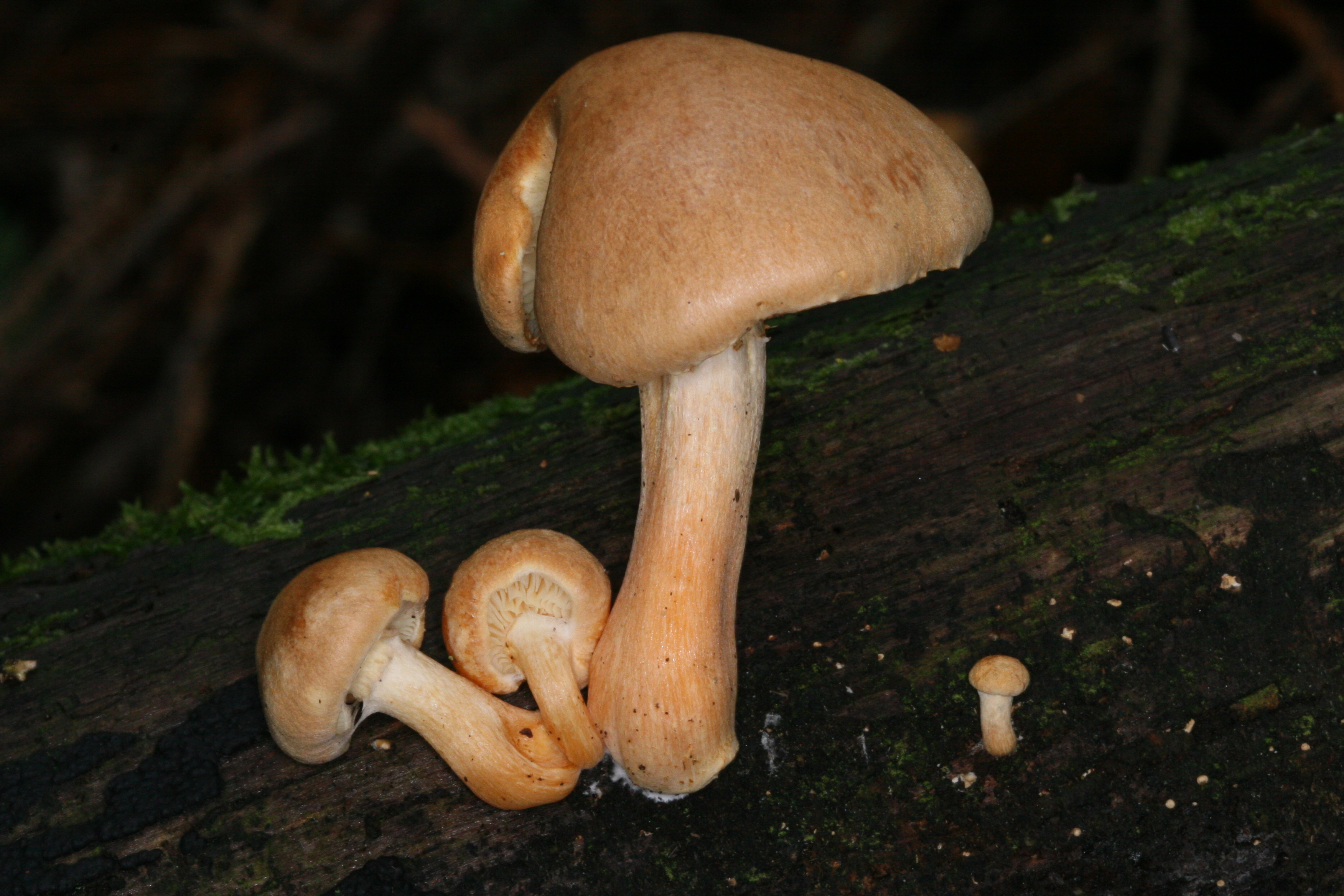 Fruit bodies of the agaric fungus Gymnopilus hybridus (Bull.) Maire. Photographed in Fort Flagler, Jefferson Co., Washington, USA.